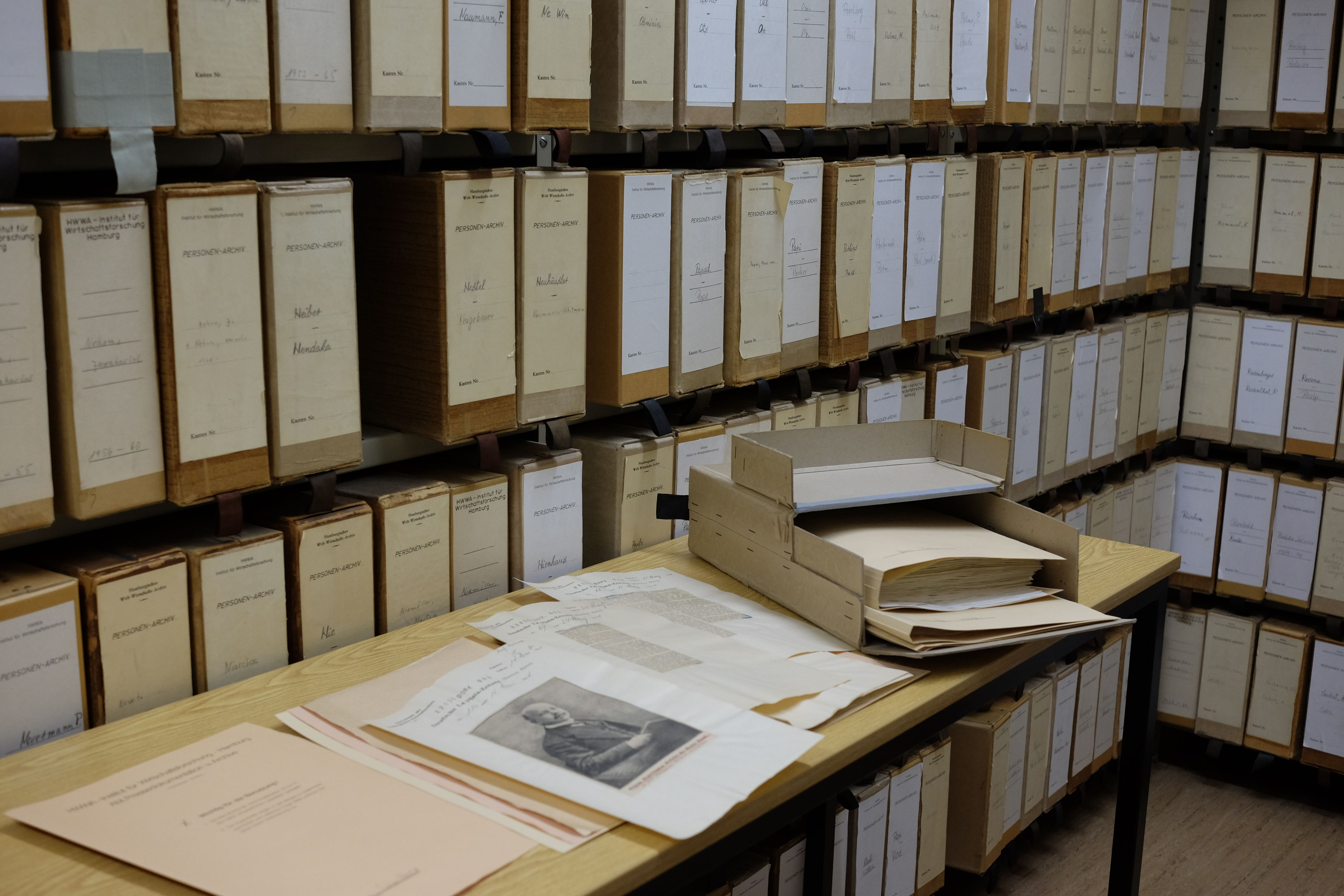 Press archive folders with clippings in archive room of ZBW 2015 (formerly HWWA)